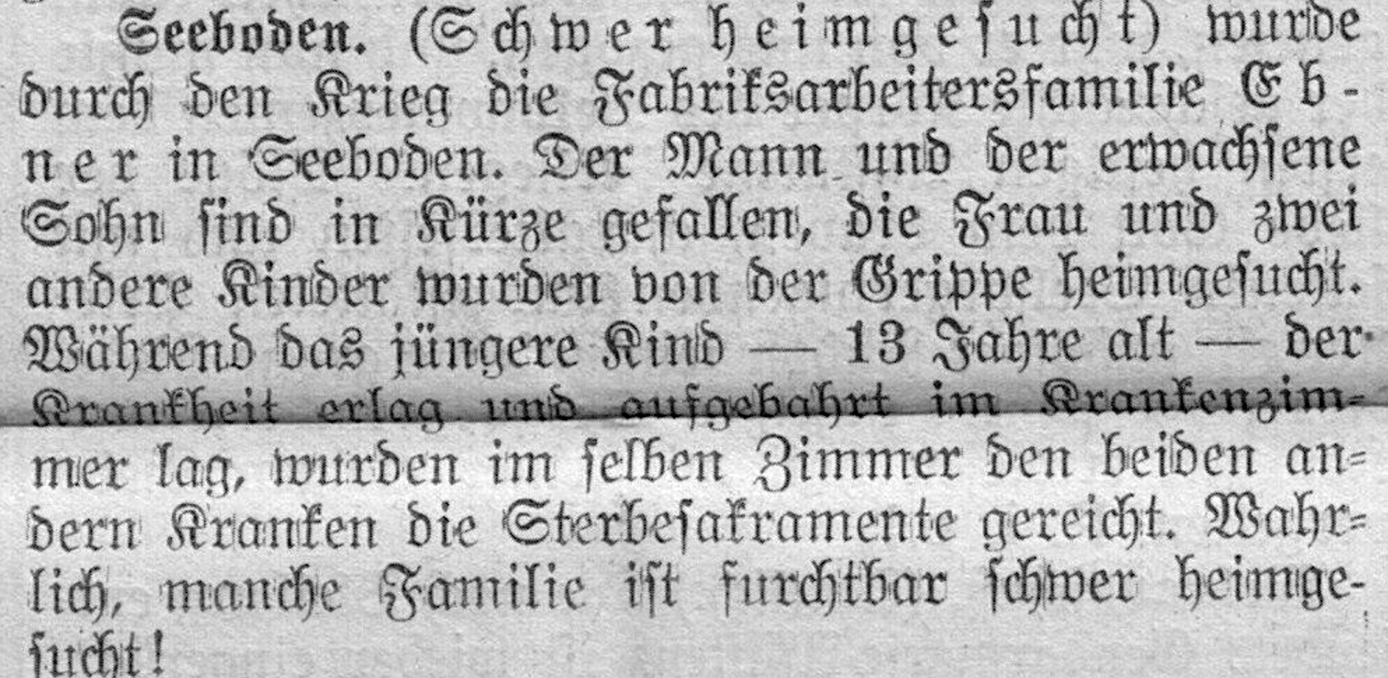 Vitims of the Spanish flu in Seeboden in Carinthia / Austria / European Union. Newspaper article, Kärntner Tagblatt, 13th of November 1918